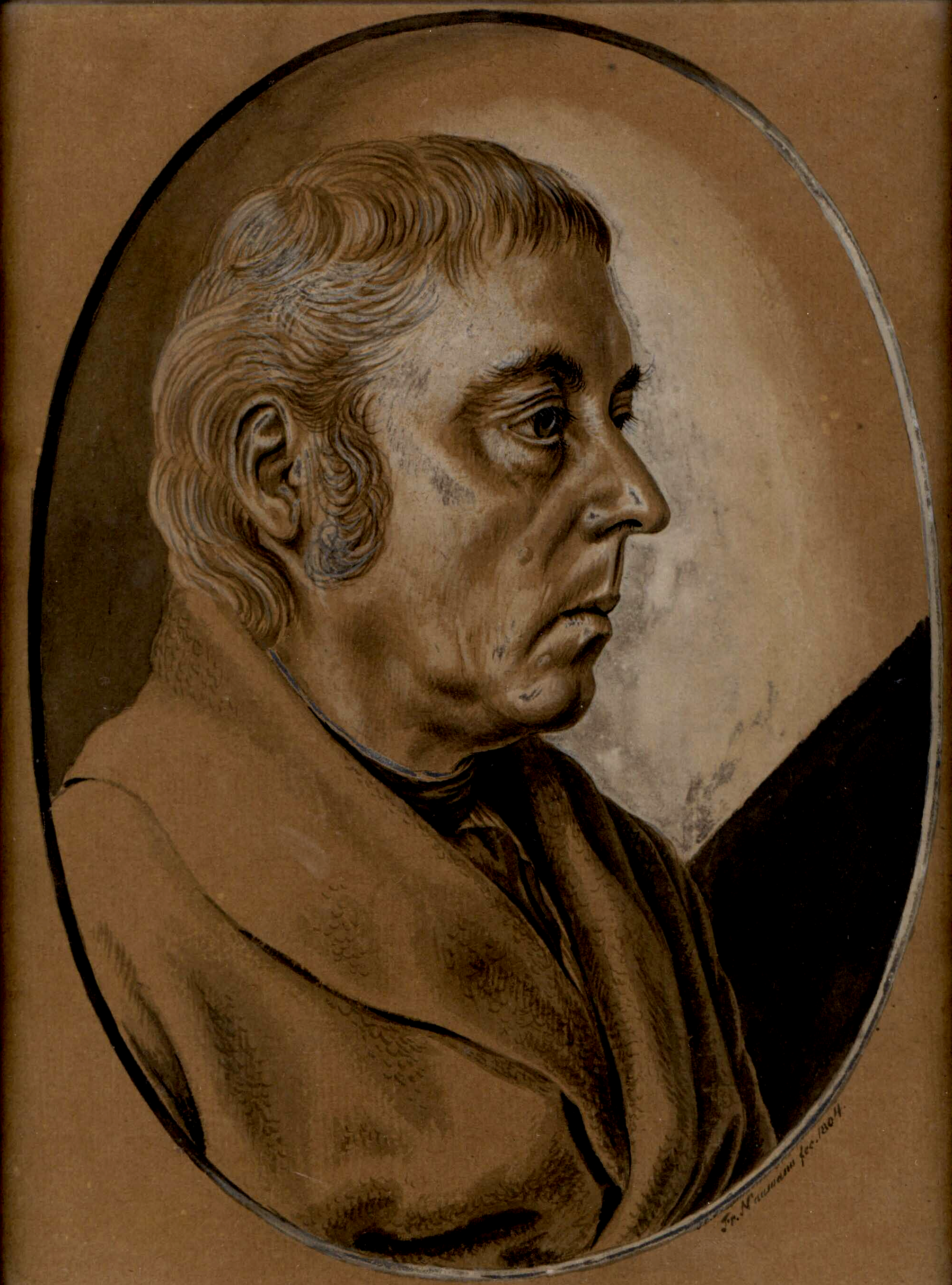 Johann Andreas Naumann (*13.04.1744 Ziebigk, +15.05.1826 Ziebigk)